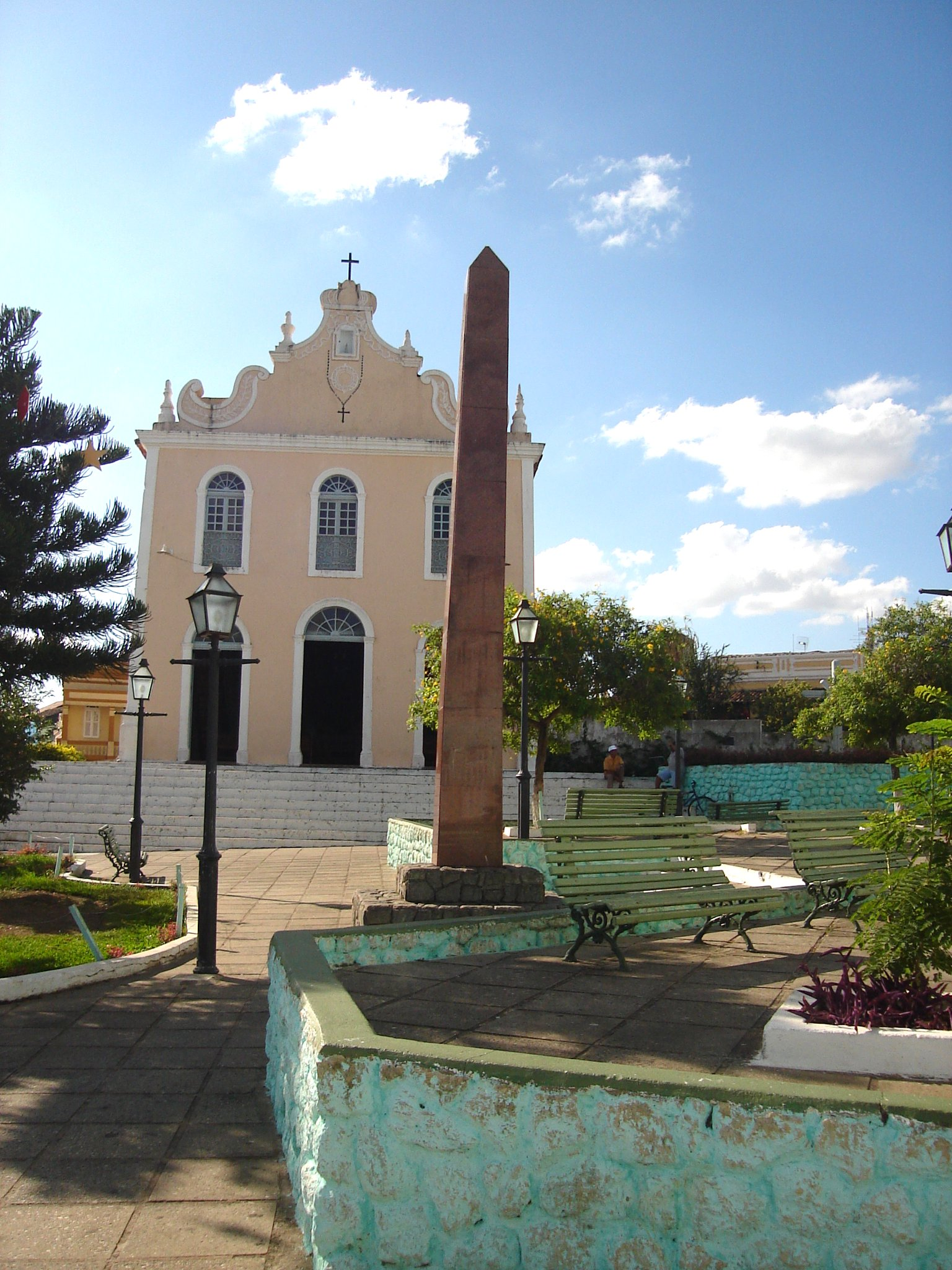 A church in Areia, Paraíba, Brazil